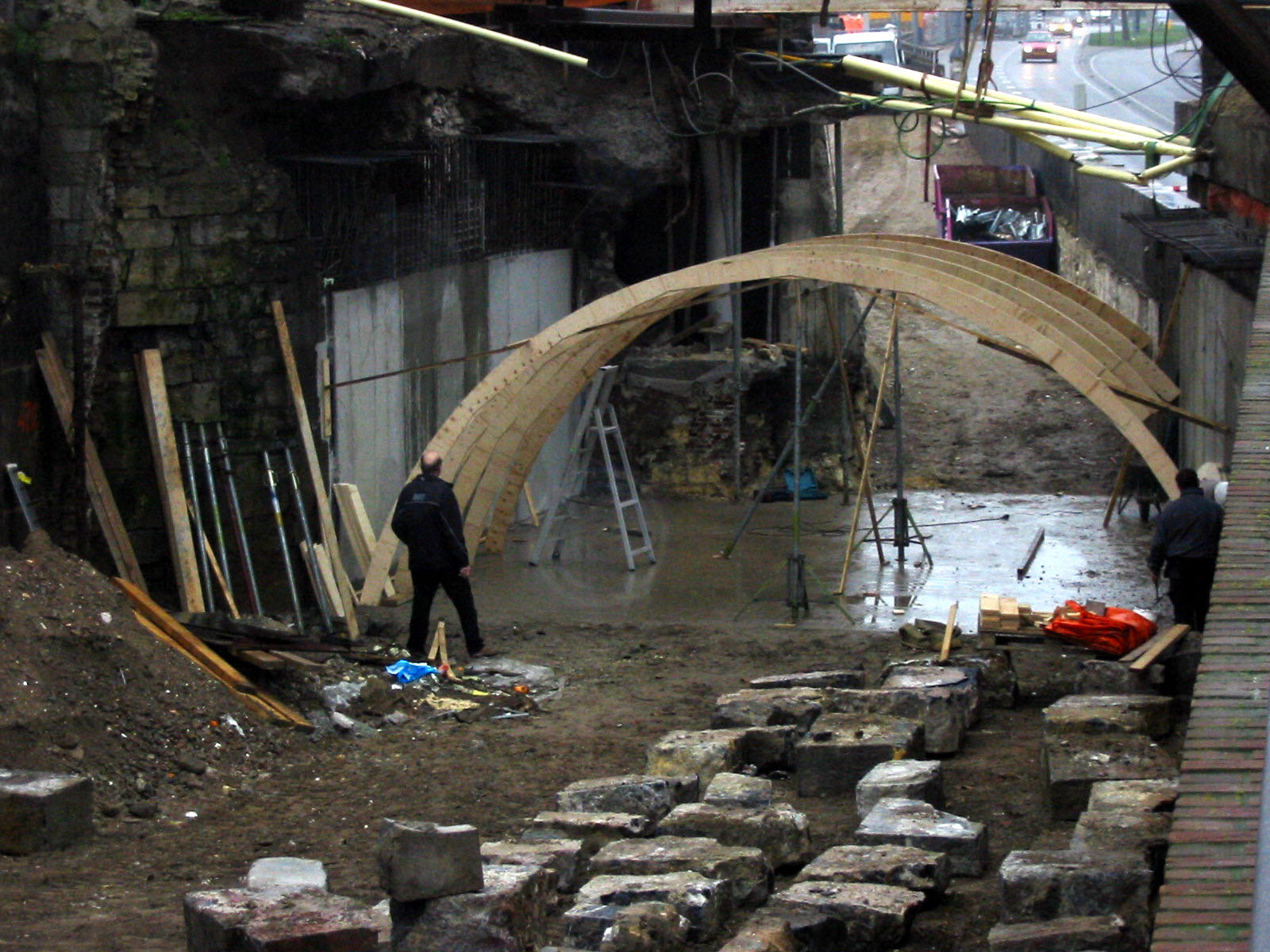 A concrete construction is erected to replace the last medieval arch of the Servaasbridge in Maastricht. The arch was demolished two months earlier to fit into the urban design plan of Jo Coenen. Inside the concrete construction a fake arch will be placed, using parts of the original arch.